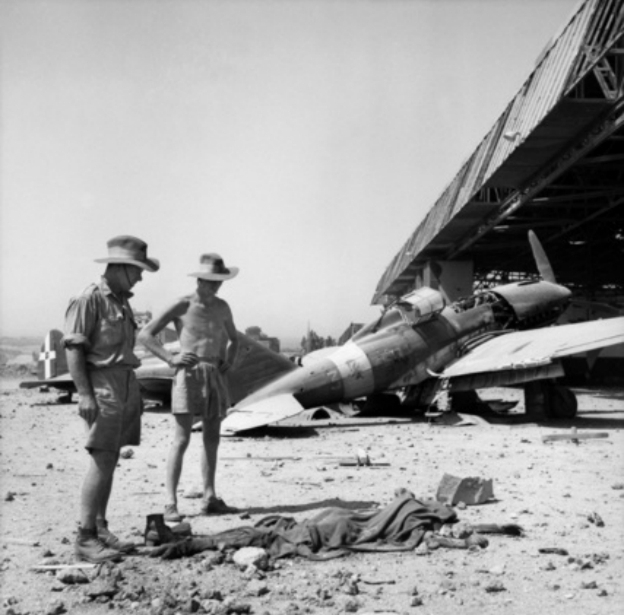 Damaged Italian Reggaine Re.2005 fighter aircraft at Catania, Sicily (Italy), in 1943.